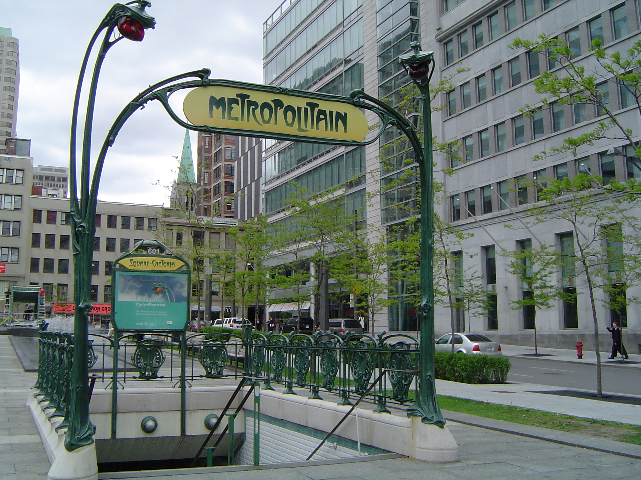 “Métropolitain” sign of a tribute Paris Métro entrance designed by Hector Guimard located at Montreal, Canada, at the « Square-Victoria » Metro Station